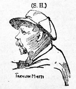 Finnish tolstoyan and race horse driver Matti Edward Takala (1869-1961) in a 1916 sketch.